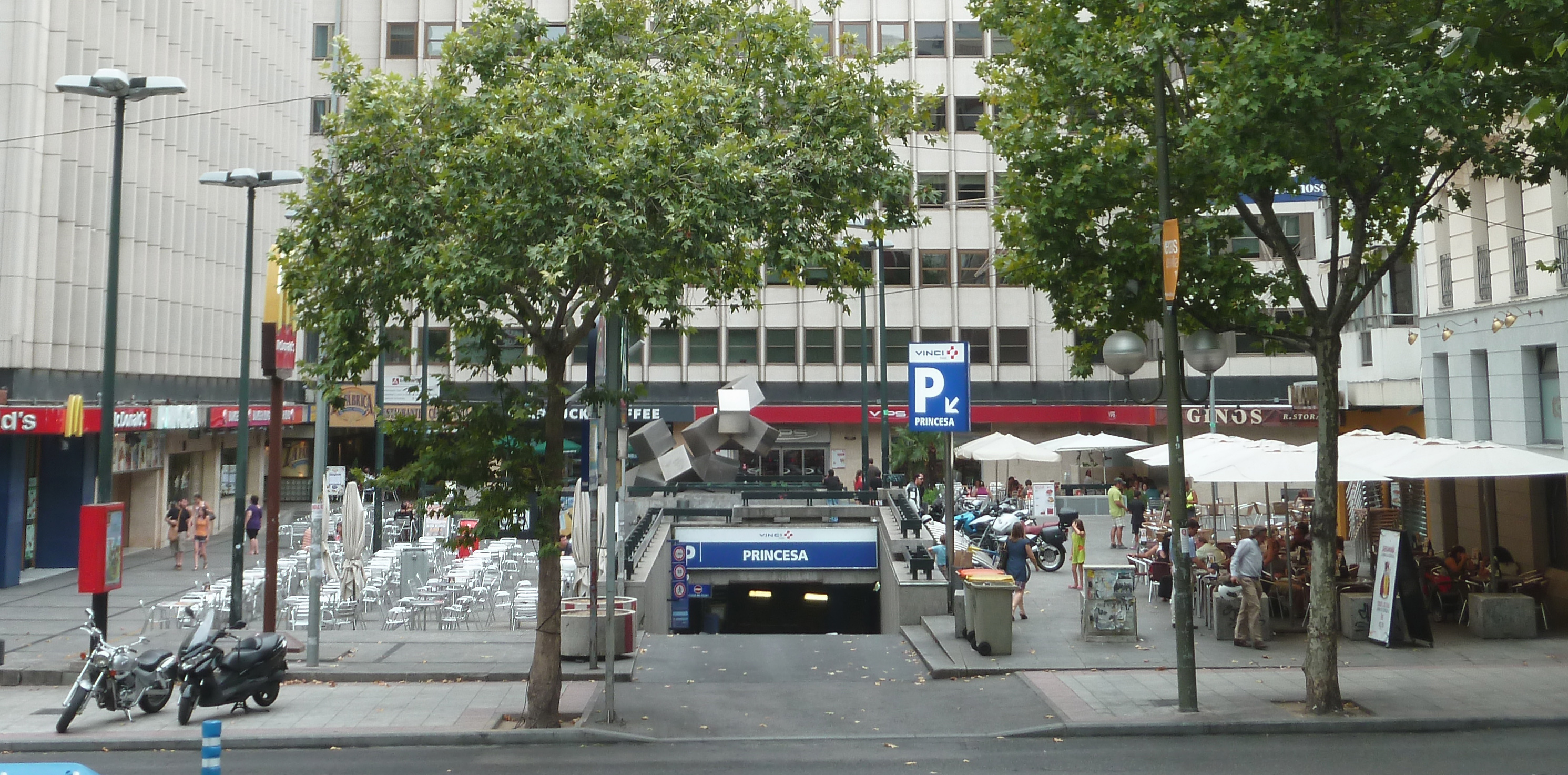 View of Plaza de Emilio Jiménez Millas (a square) in Moncloa-Aravaca district in Madrid (Spain).